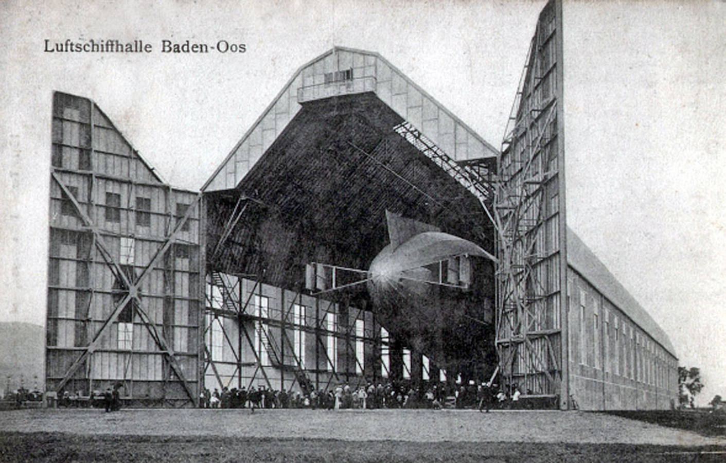 Airship hangar at Baden-Oos („Luftschiffhalle Baden-Oos“)